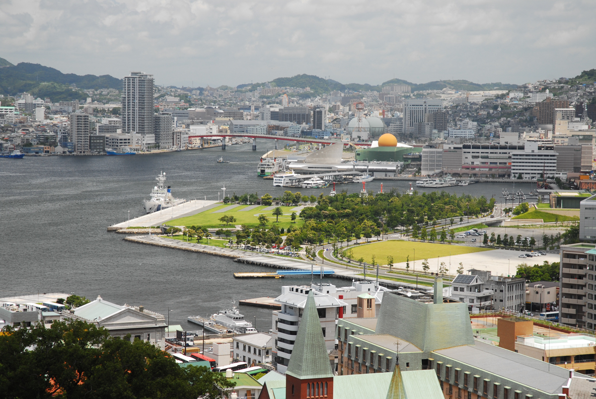 Cityscape of Nagasaki, Nagasaki Prefecture, island of Kyushu, Japan.